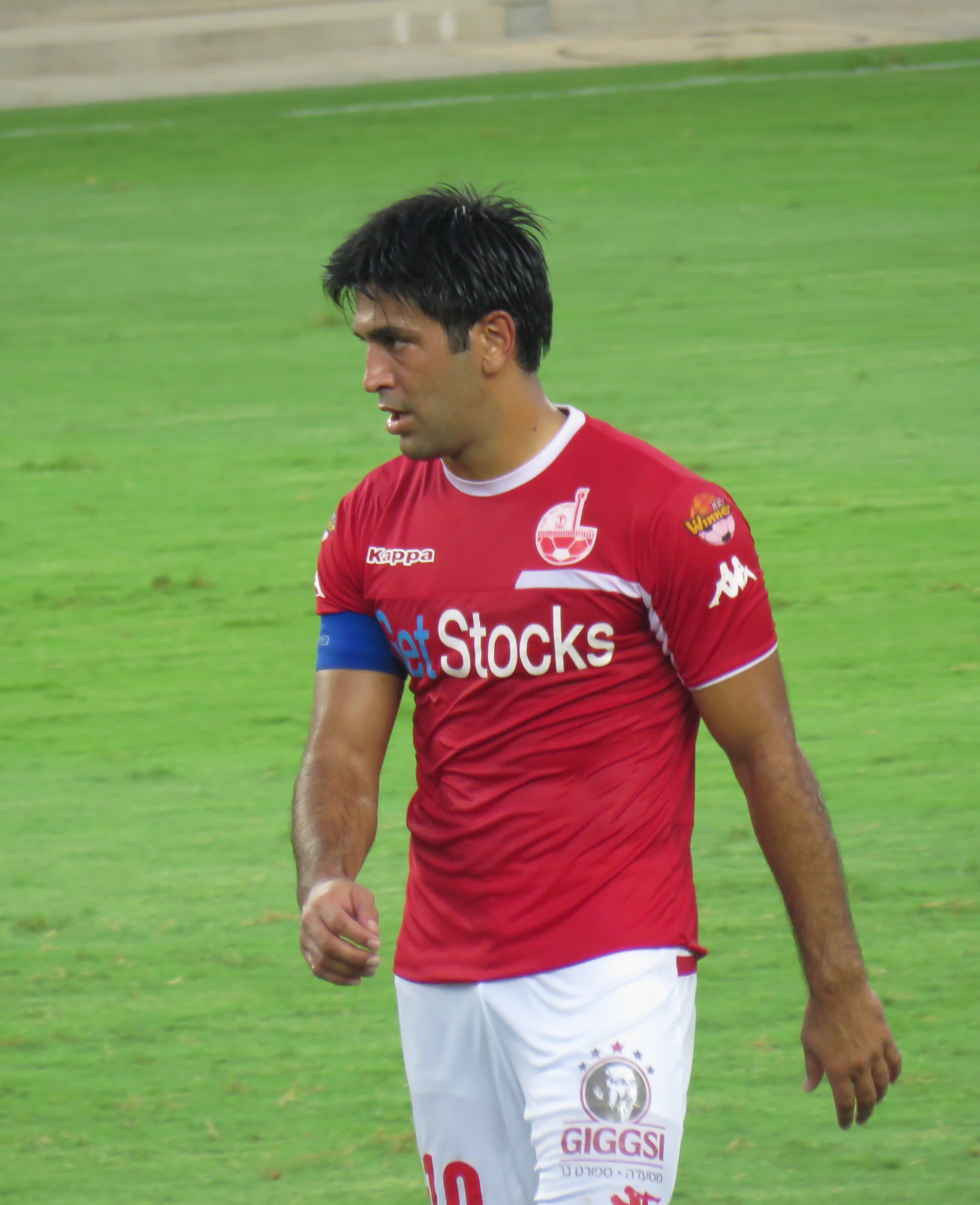 Hapoel Ra'anana vs. Hapoel Be'er Sheva - September 12, 2015